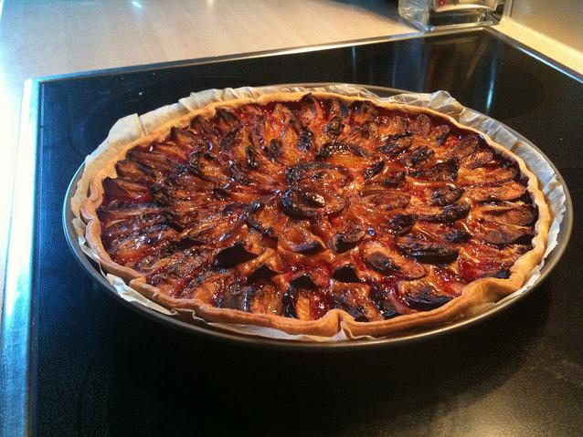 Luxembourg speciality: Quetschentaart, a pie made with damson plums.